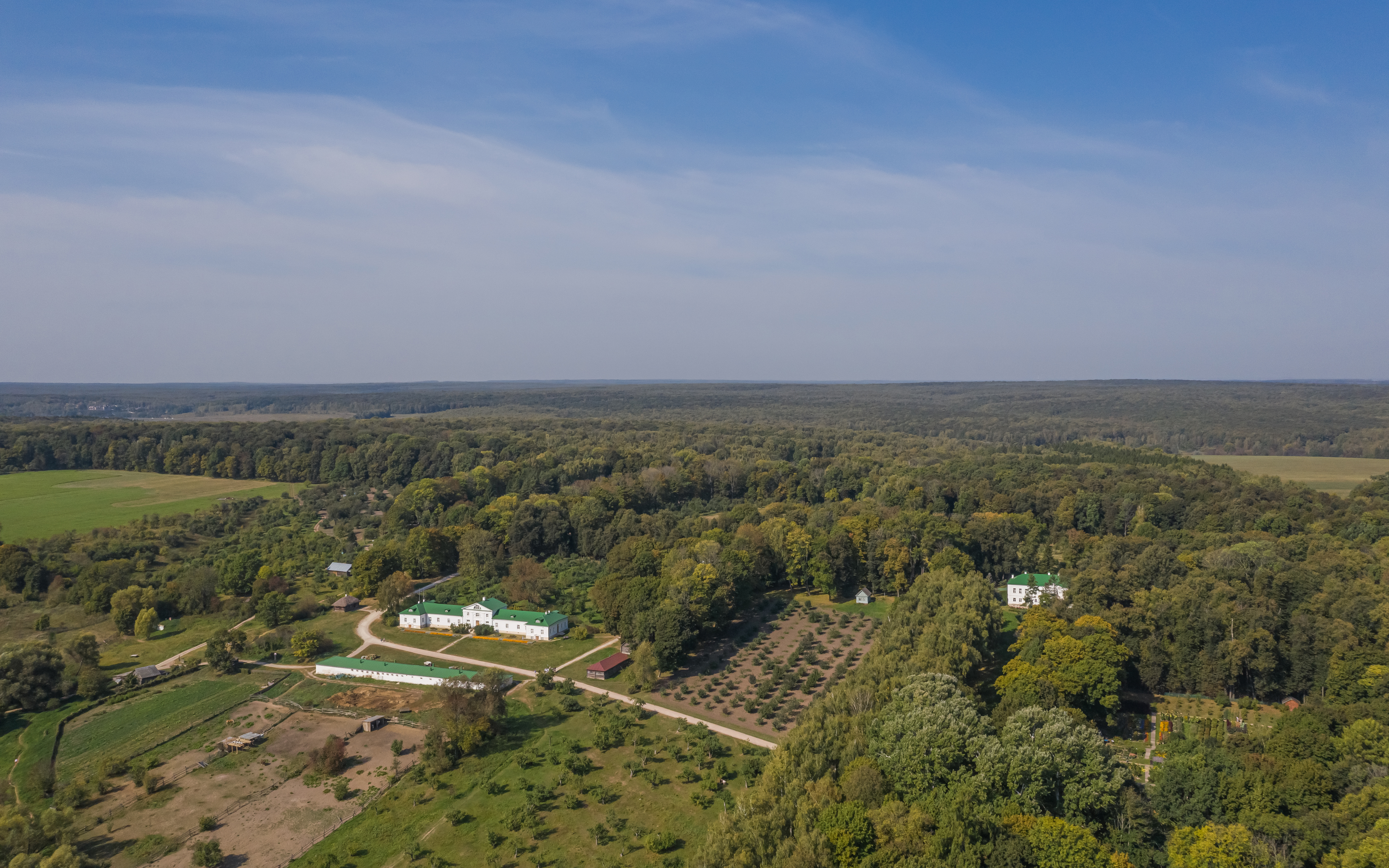 Aerial view of Yasnaya Polyana estate near Tula, Russia